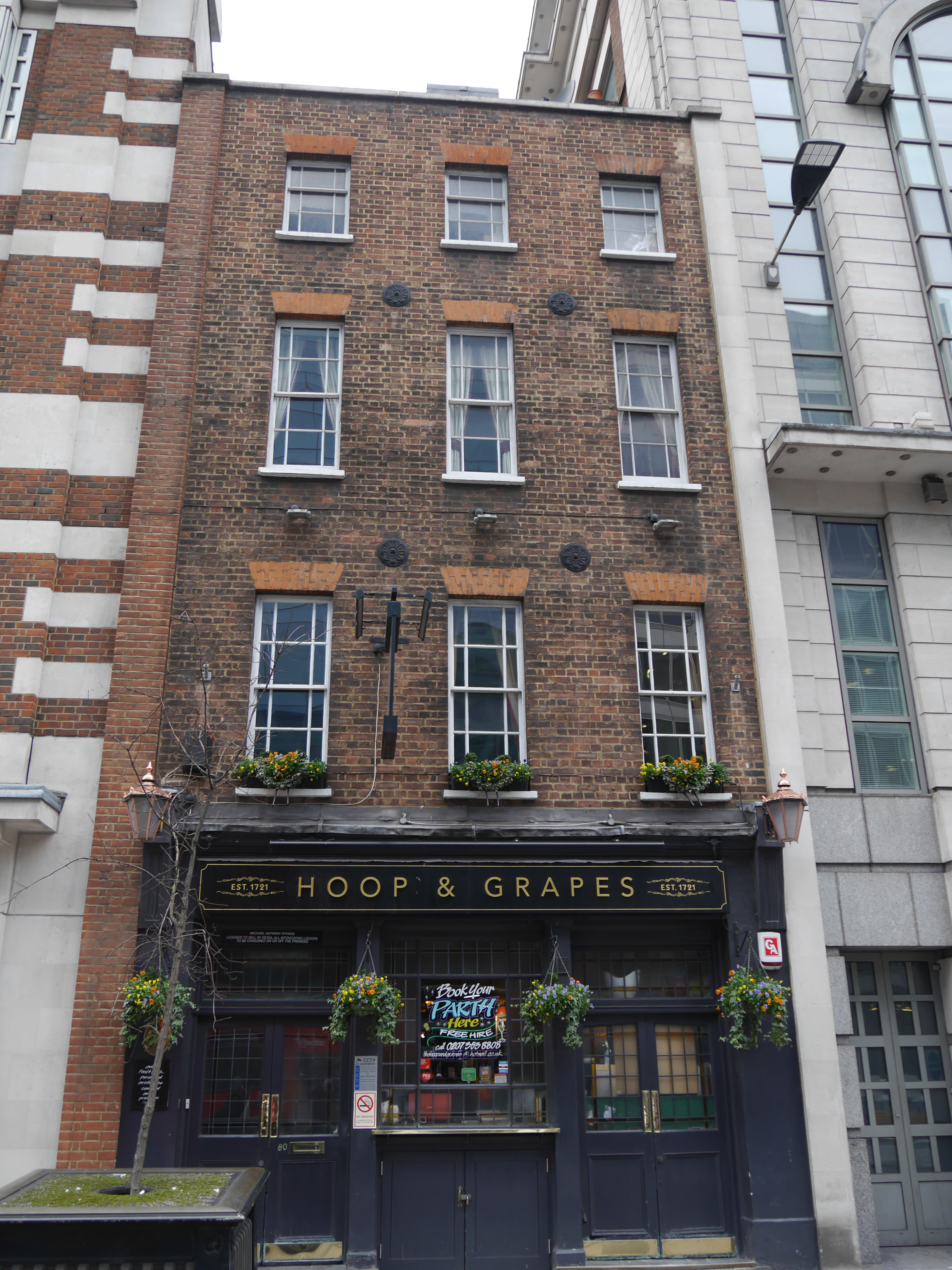 Hoop and Grapes, Farringdon Street, January 2018